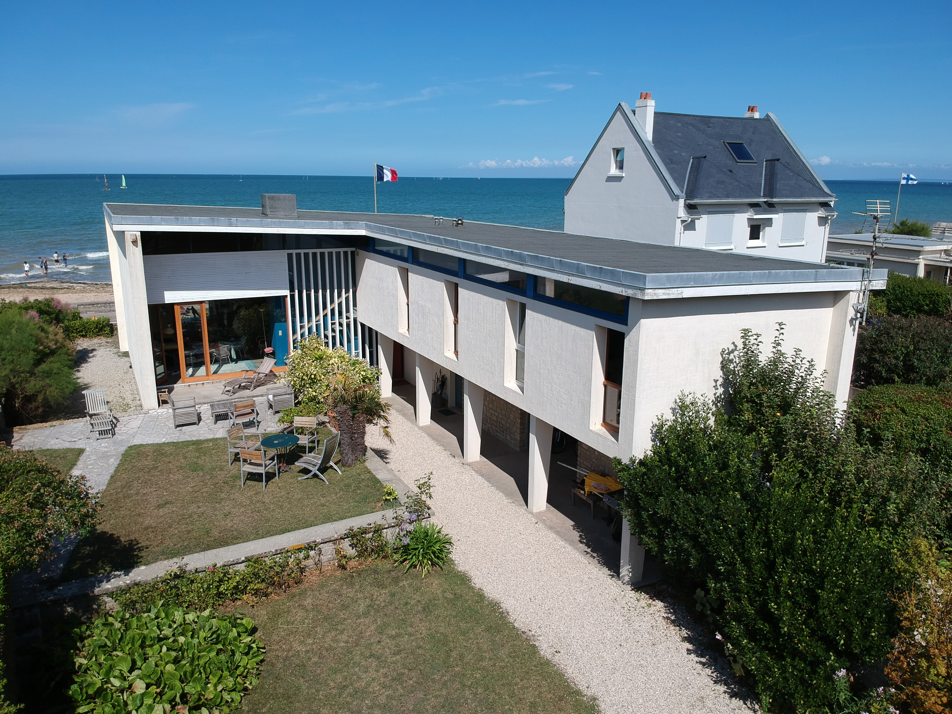 The villa 'Nova Stella' built in 1952 by architect and engineer Jean Fayeton for his personal use on the seaside in Calvados, France.